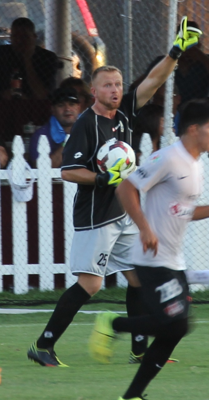 Dominik Jakubek playing for Sac Republic in a friendly match against Atlas of Mexico